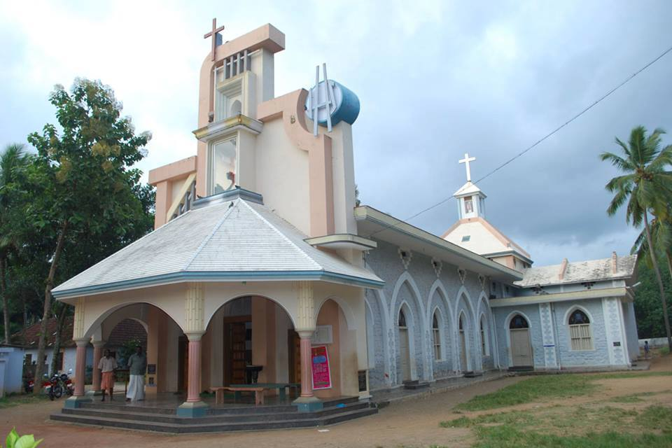 st.AUGUSTINE CHURCH KULASEKHARAM 21